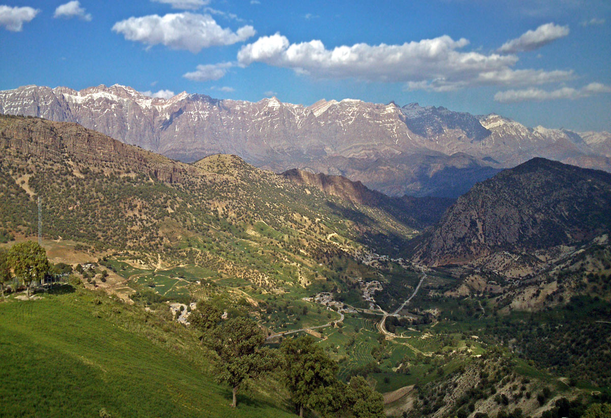 Dena mountain